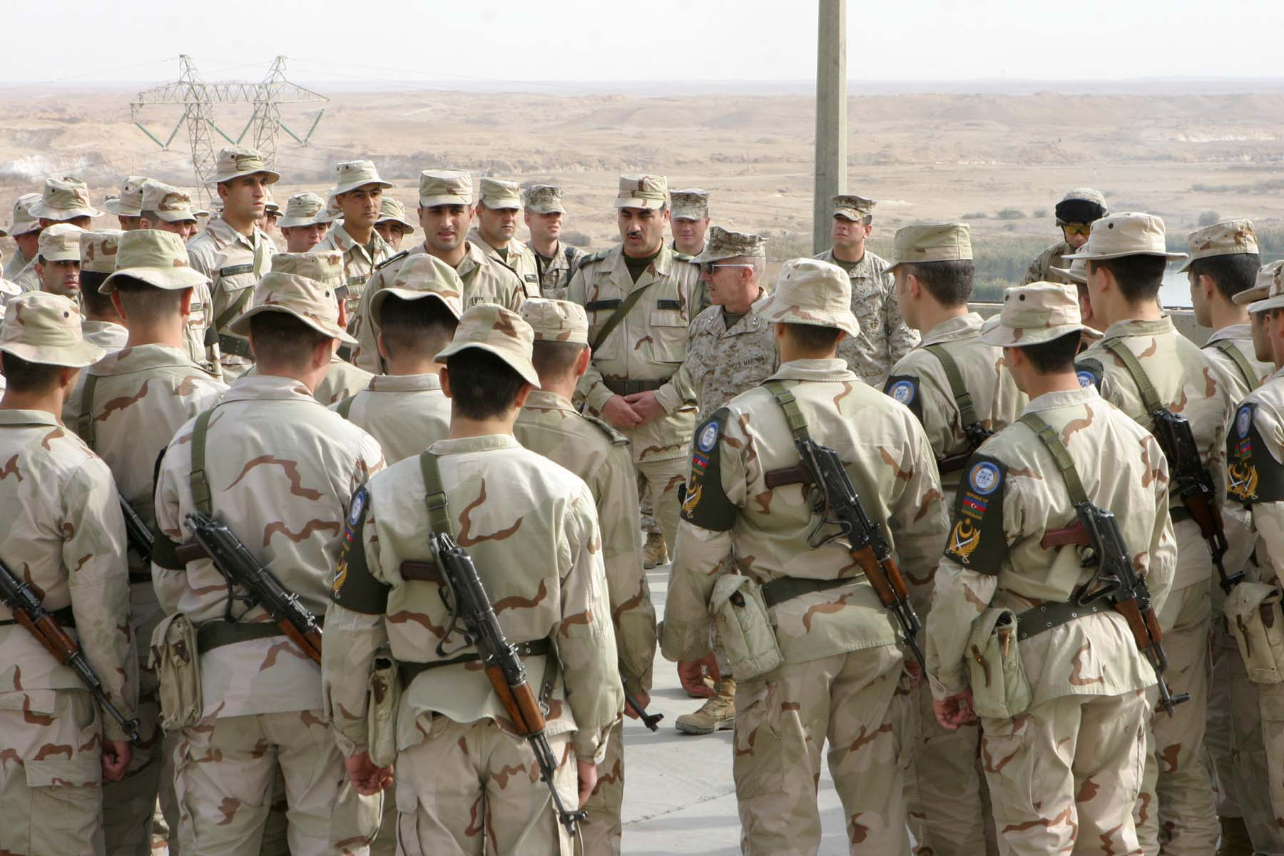 Azerbaijani soldiers circle around US Maj. Gen. Richard A. Huck, the commanding general for 2nd Marine Division, as he talks to them during a command visit to Camp Hadithah Dam, Al Anbar, Iraq. During his visit, Huck received briefs, talked with troops and gave out a plaque to the Azerbaijan Army for supporting 2nd Marine Division.